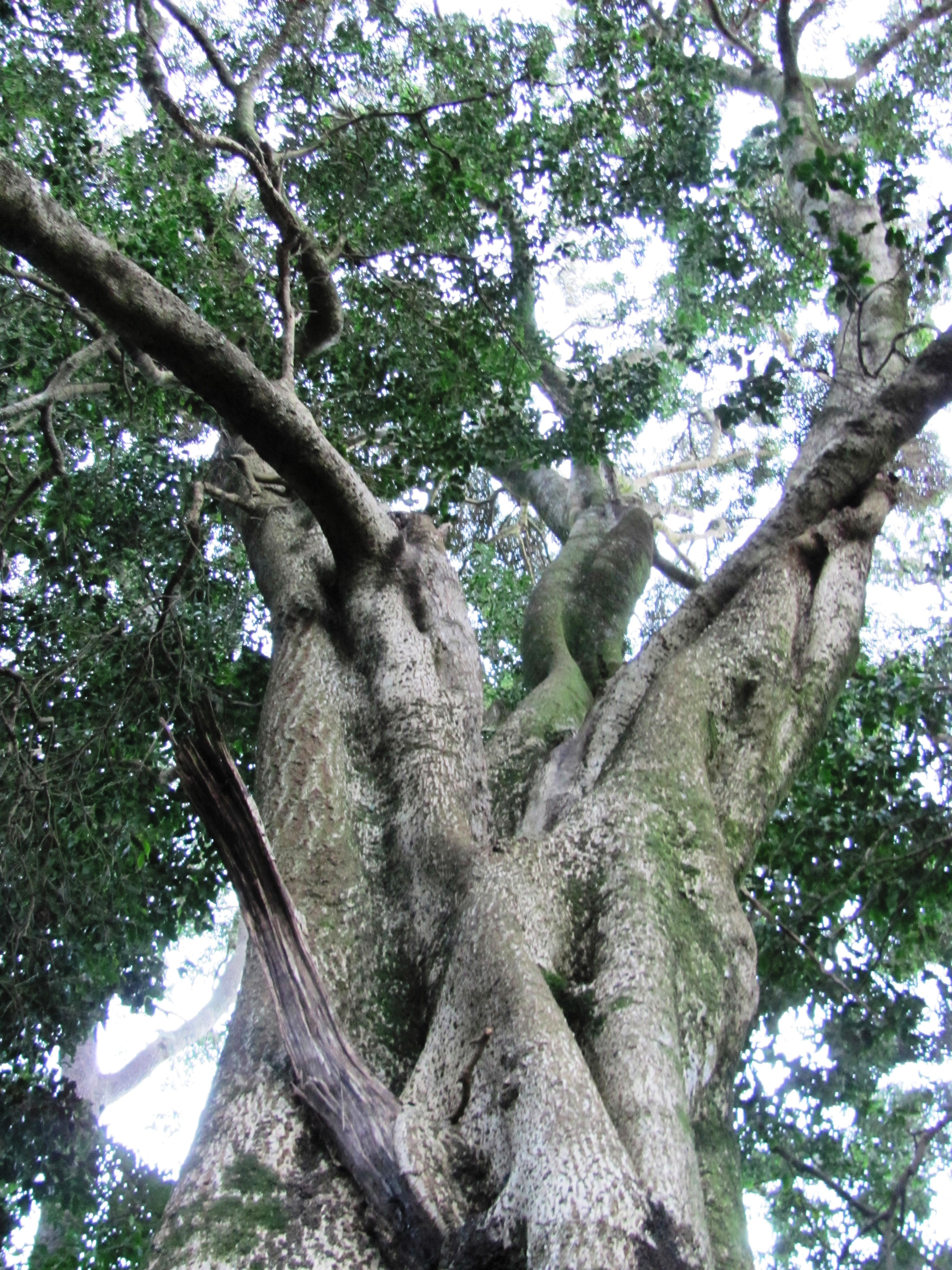 Olea capensis macrocarpa AKA Olea macrocarpa. Black Ironwood.